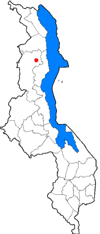 Ekwendeni, Malawi Location Map; created with the GIMP. Made by User:Acntx.